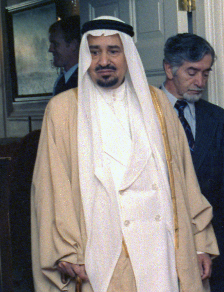 King Khalid of Saudi Arabia during a meeting with US president Jimmy Carter on October 27, 1978.